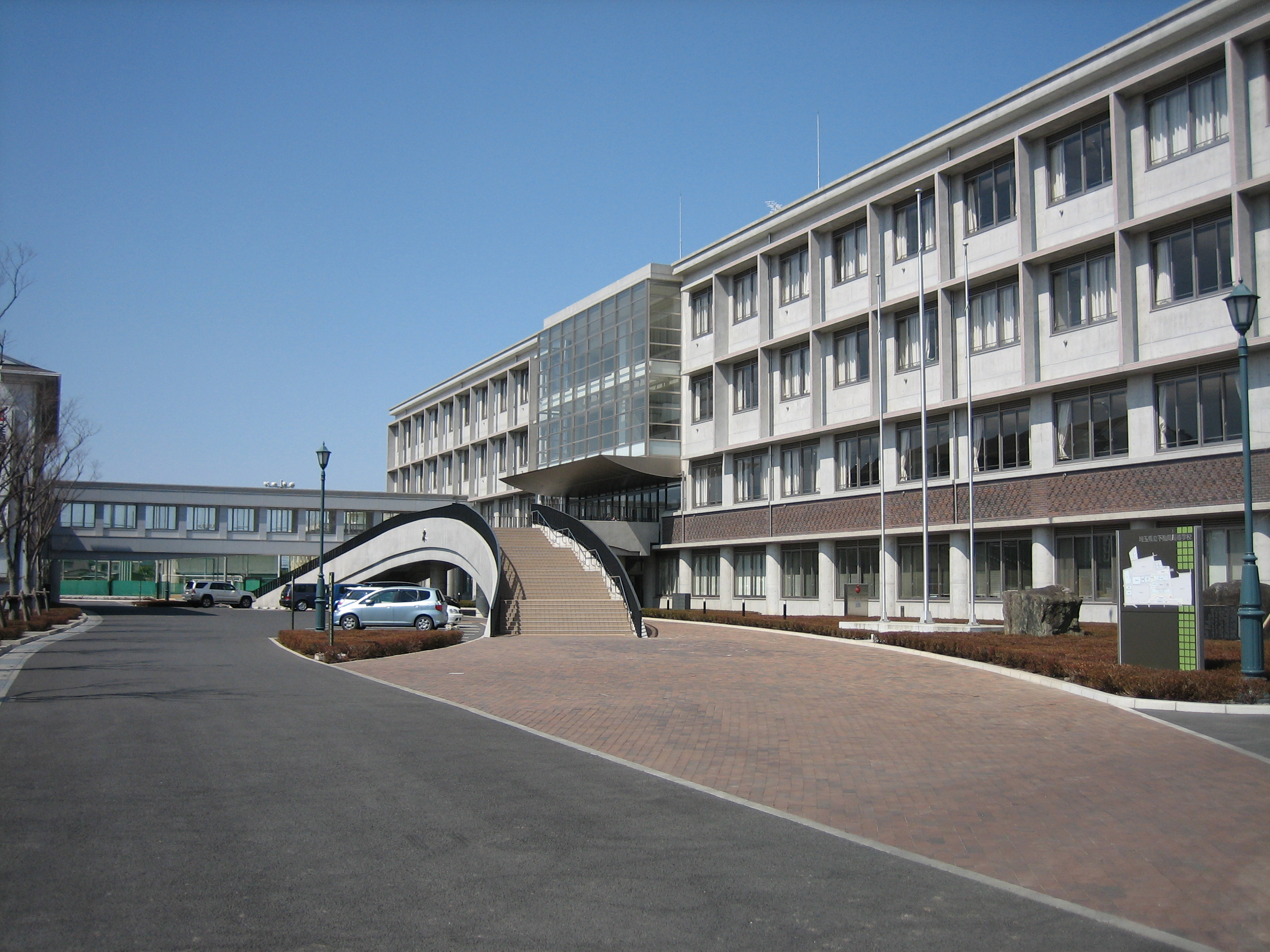 Saitama Prefectural Fudooka High School